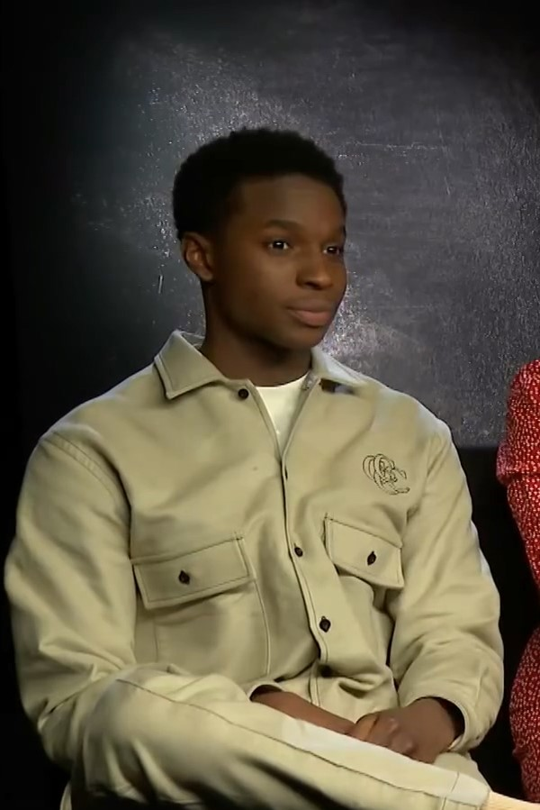 Kedar Williams-Stirling at an MTV International interview in January 2019